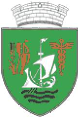 Coat of arms of Mangalia, Romania